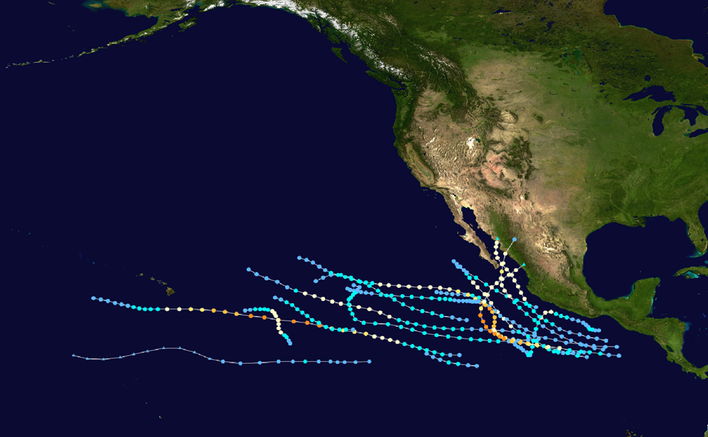 This map shows the tracks of all tropical cyclones in the 1986 Pacific hurricane season. The points show the location of each storm at 6-hour intervals. The colour represents the storm's maximum sustained wind speeds as classified in the Saffir-Simpson Hurricane Scale (see below), and the shape of the data points represent the type of the storm. Saffir–Simpson scale Tropical depression≤38 mph≤62 km/h Category 3111–129 mph178–208 km/h Tropical storm39–73 mph63–118 km/h Category 4130–156 mph209–251 km/h Category 174–95 mph119–153 km/h Category 5≥157 mph≥252 km/h Category 296–110 mph154–177 km/h Unknown Storm type Tropical cyclone Subtropical cyclone Extratropical cyclone / Remnant low / Tropical disturbance / Monsoon depression